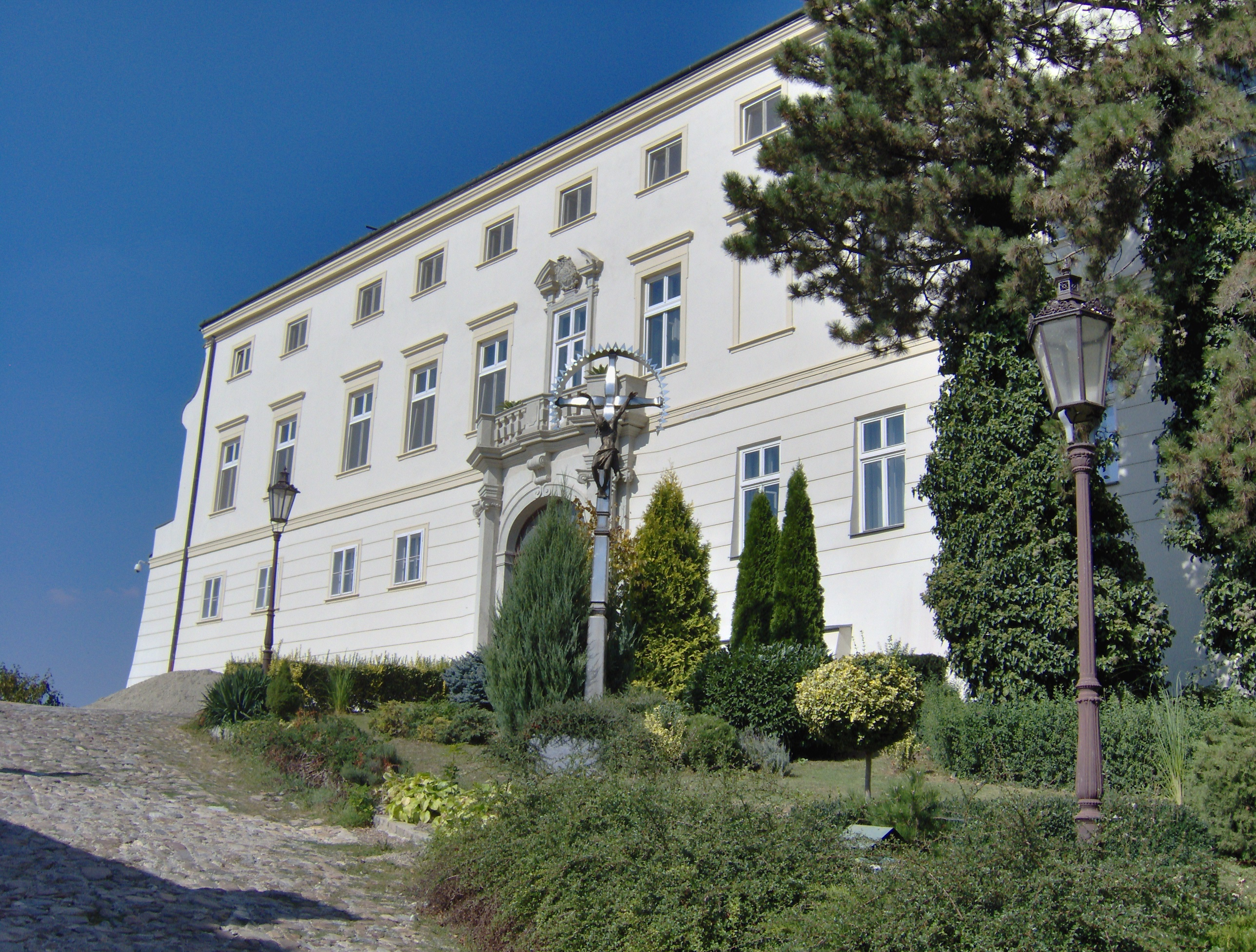 Nitra Castle, Building of Roman Catholic Diocese of Nitra